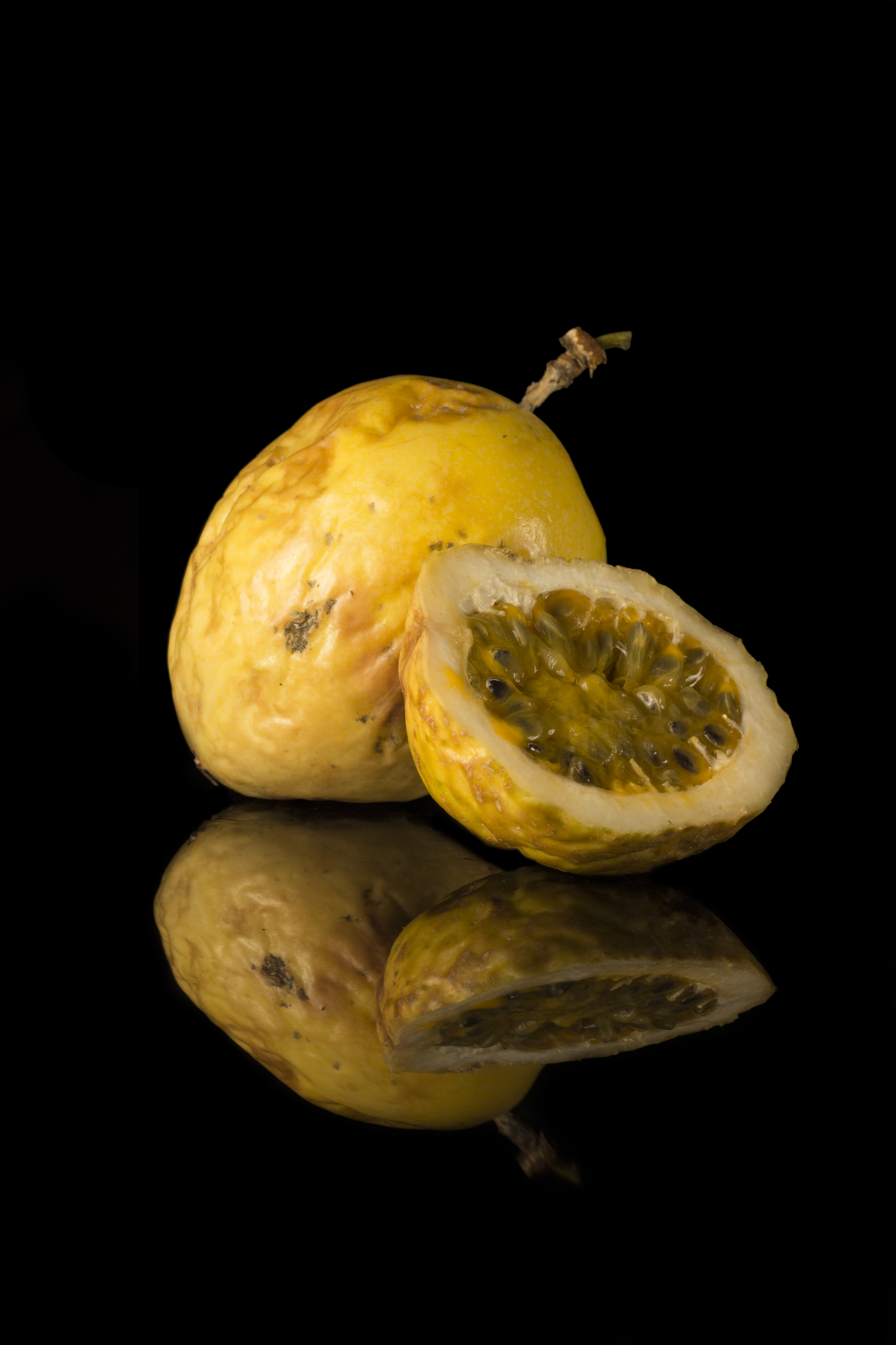 Passion fruit (Passiflora edulis var. flavicarpa) in black background.